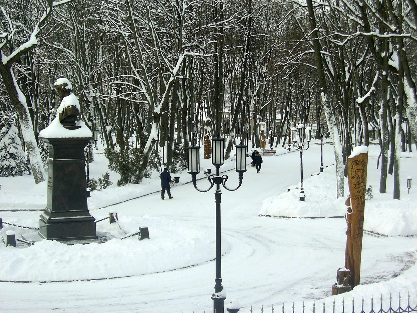 View of Tolstoy park in Bryansk at winter